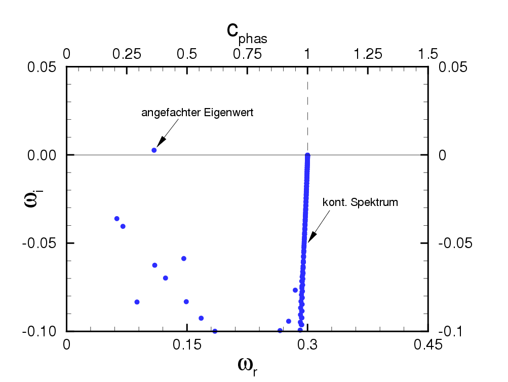 temporal spectrum for the blasius boundary layer